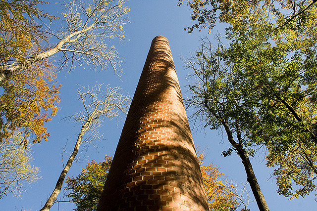 Jan Svenungsson's 8th and tallest chimney at Wanas Castle in Sweden. License on Flickr (2011-02-19): CC-BY-2.0 Flickr tags: chimney, wanås, skorsten, phallic